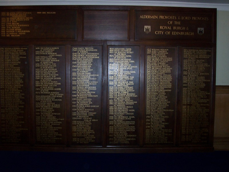 One of two panels listing the Aldermen, Provosts and Lord Provosts of the City of Edinburgh, located in the City Chambers.